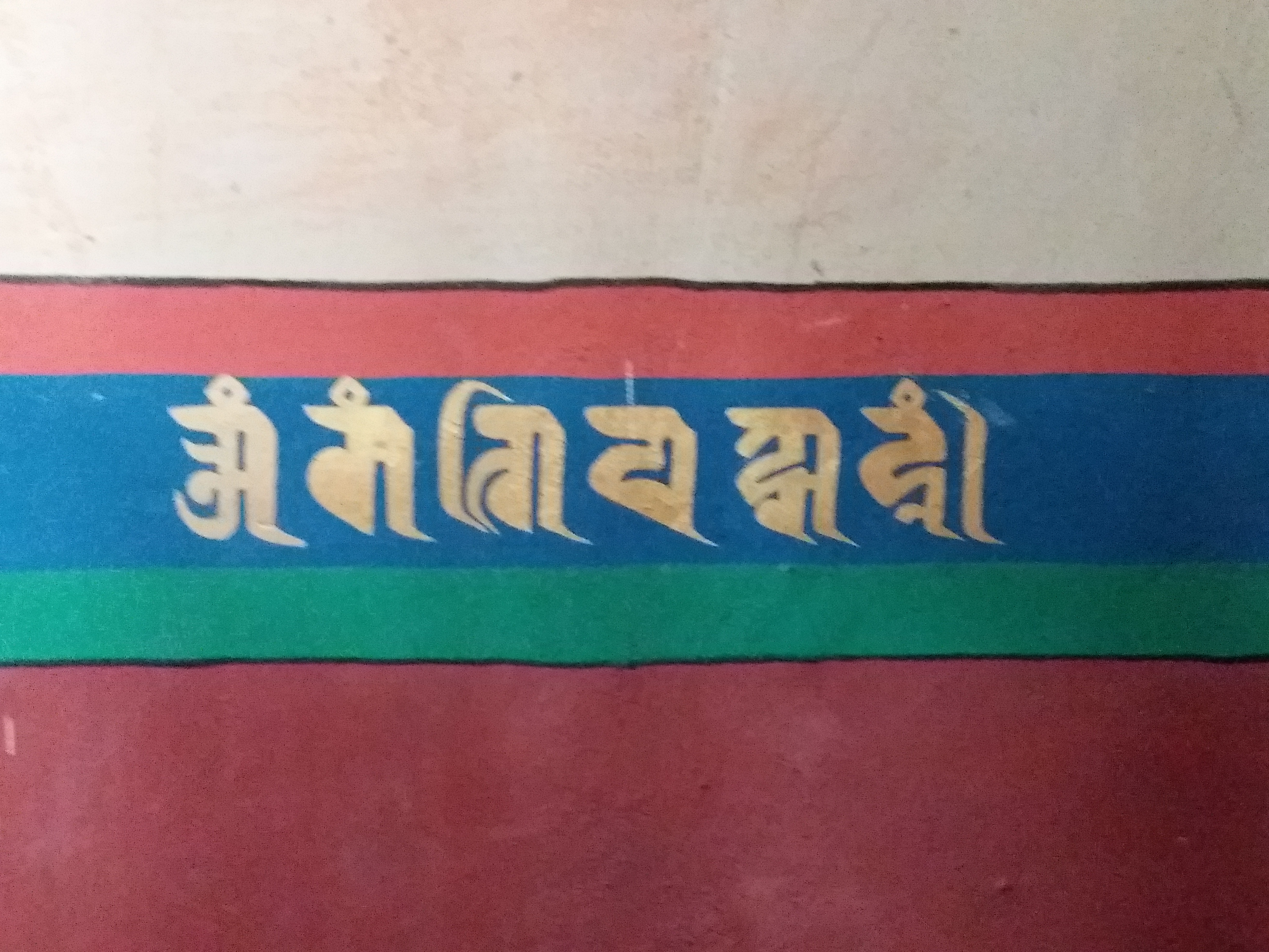 Buddhist mantra in Tsemo temple, Leh, Ladakh.